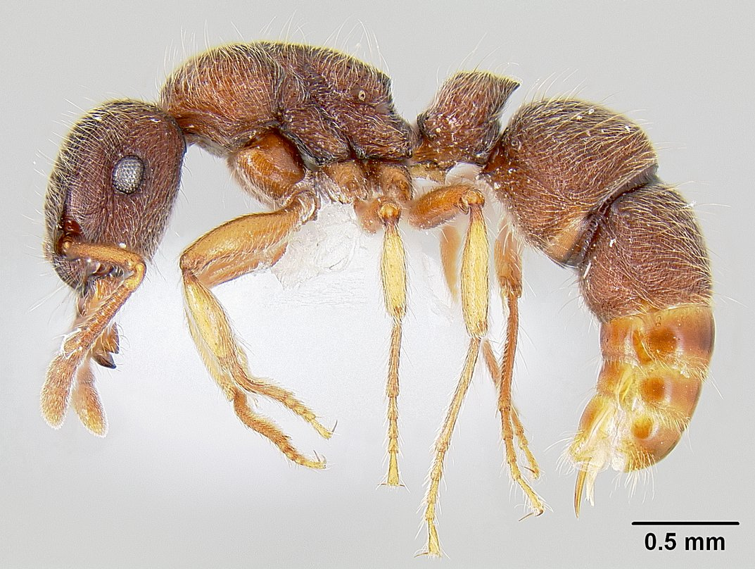 Profile view of ant Heteroponera panamensis specimen casent0106021.